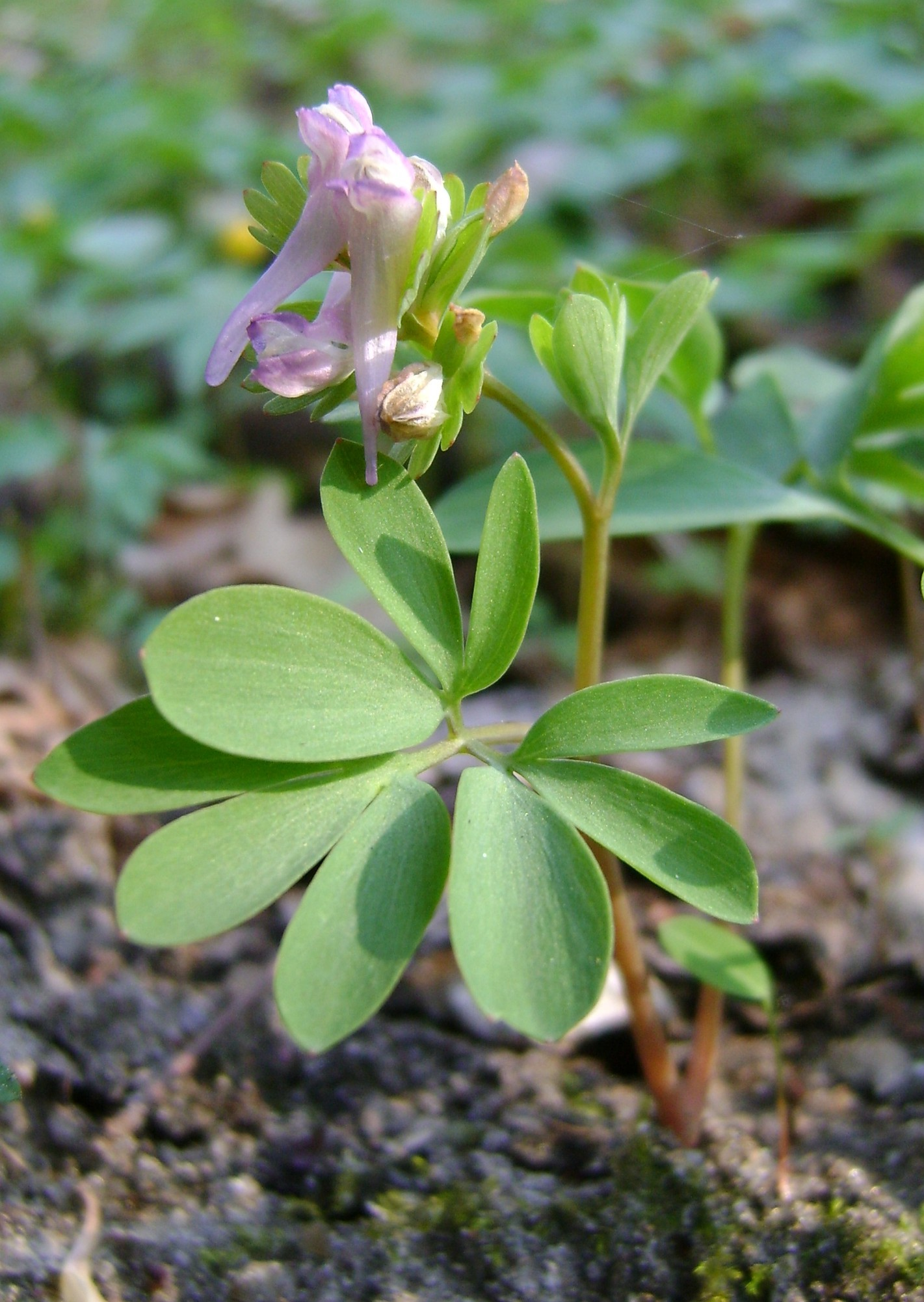 Corydalis pumila, flowers. Połczyn Zdrój, NW Poland